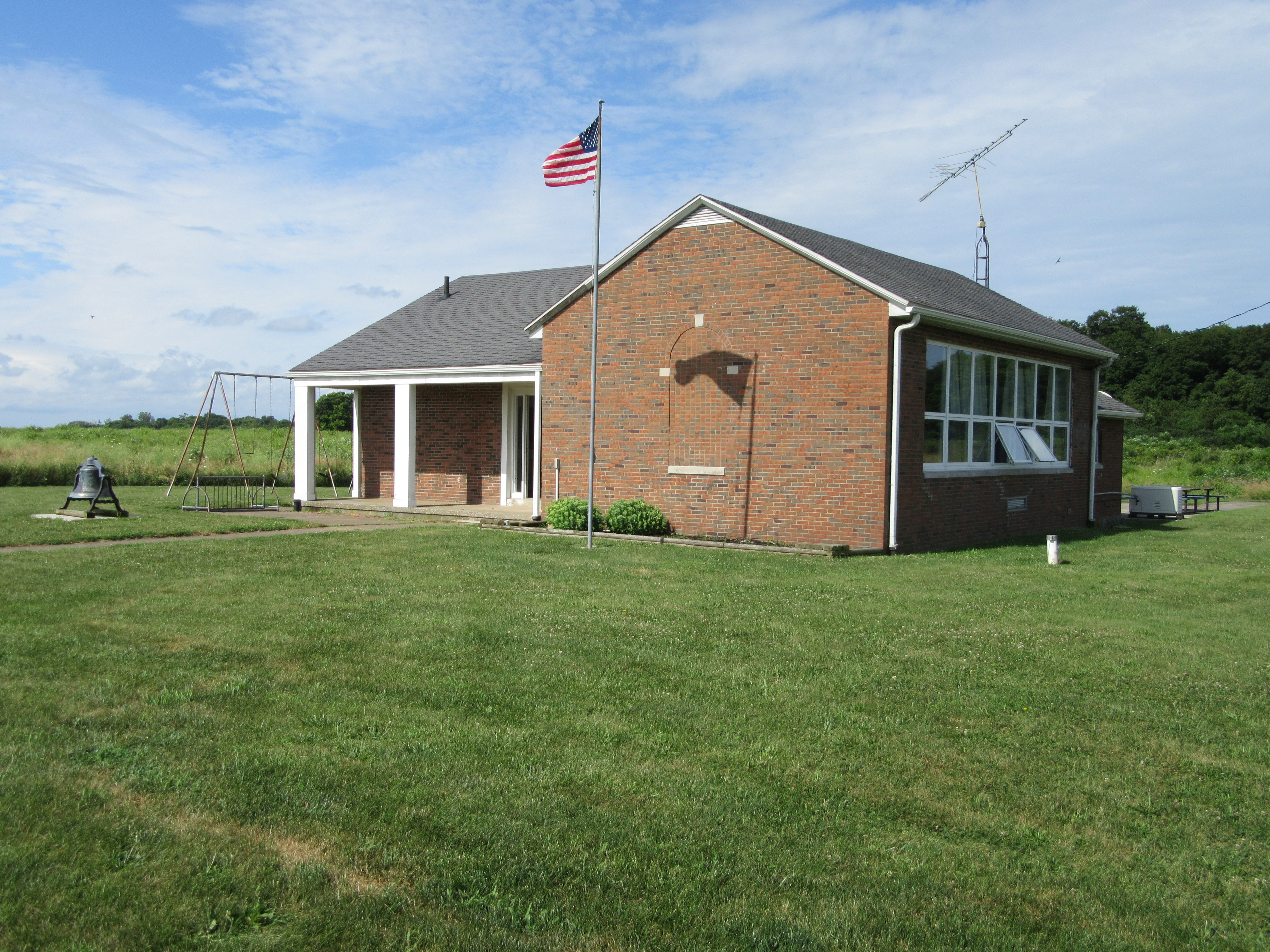 A one-room school with teacherage located on Isle St. George, Ohio in the Lake Erie Islands was the last operating one-room school in Ohio.